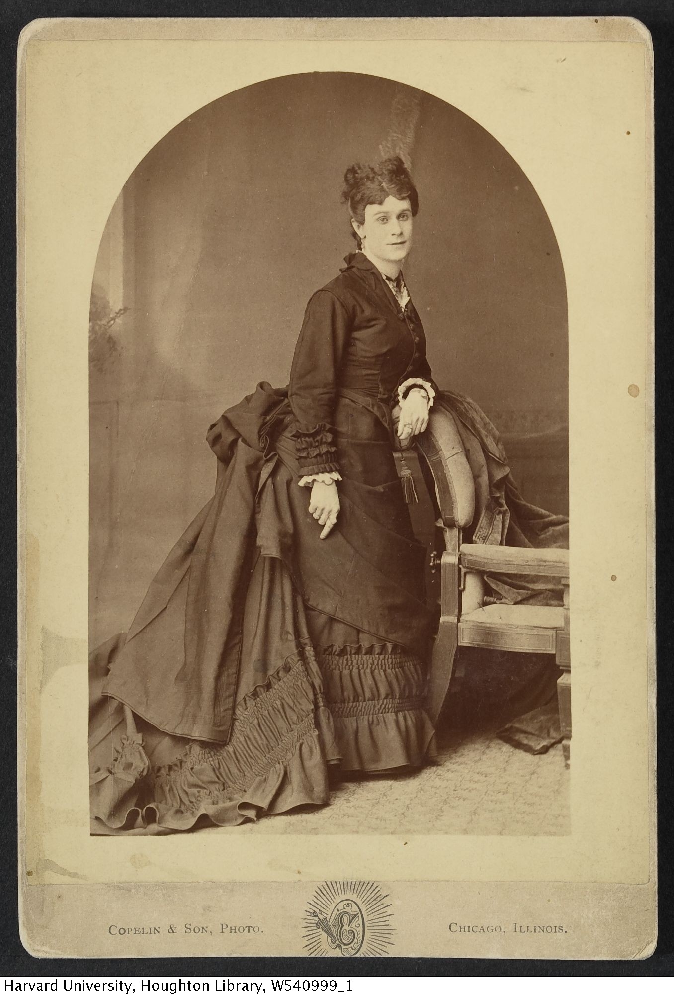 Cabinet card image of American vaudeville actor and female impersonator Francis Leon (b. 1844). In costume as a woman. From a collection dated 1919. TCS 1.643, Harvard Theatre Collection, Harvard University